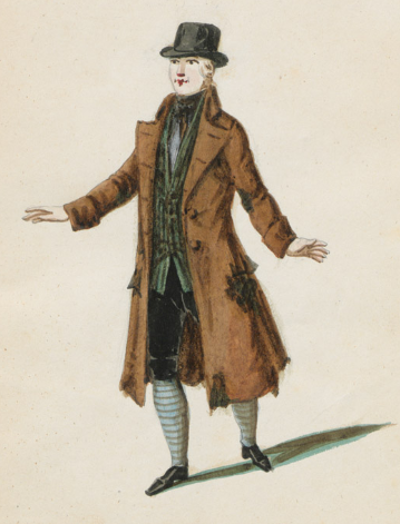 Costume for Don Checco, the title character of Nicola De Giosa's opera Don Checco. The costume is from an 1853 production at the Teatro del Fondo in Naples.